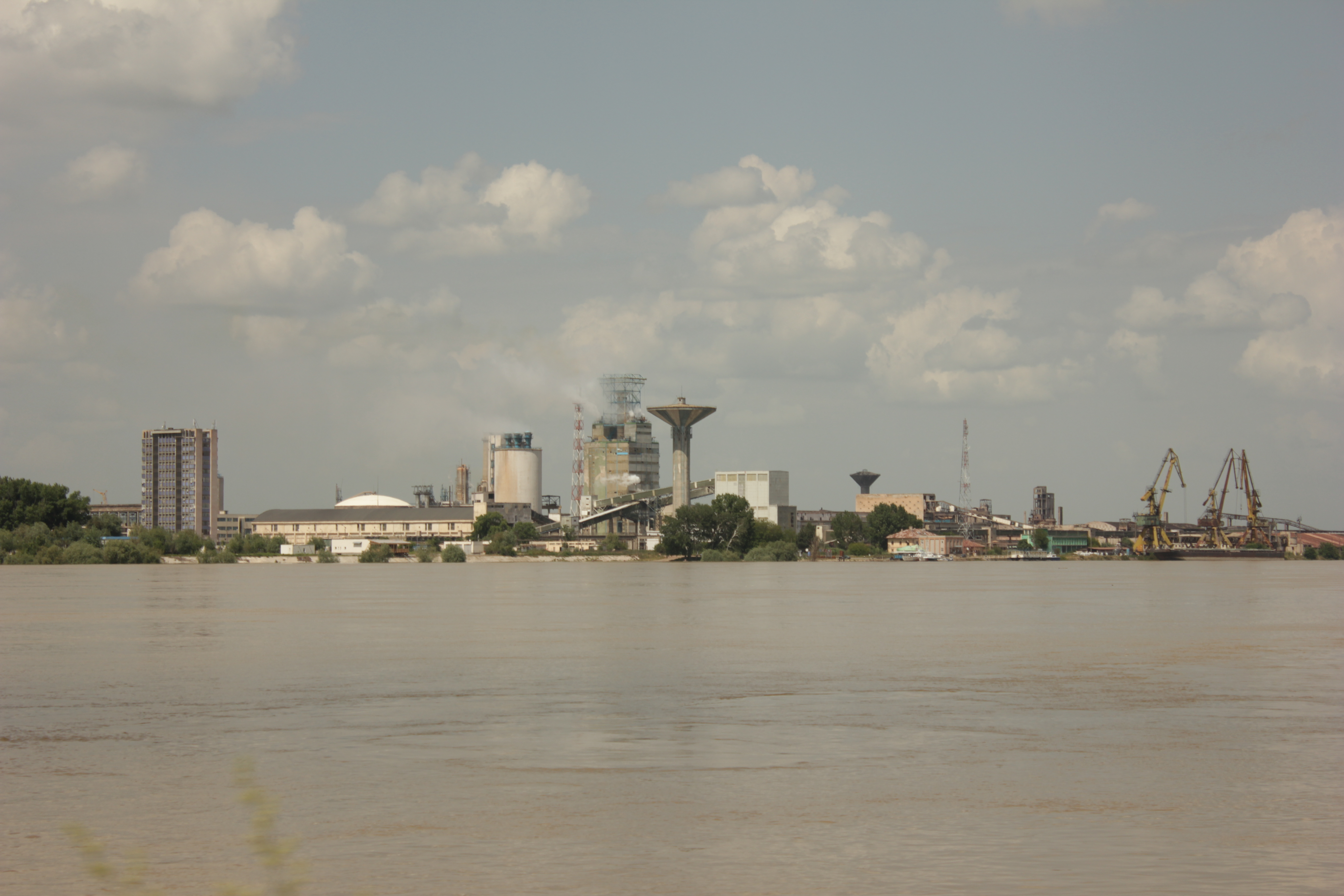 Turnu magurele view from Nikopol